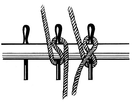 Line art drawing of belaying pins and pin rail.